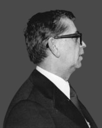 Czech actor Vlastimil Brodský in Berlin